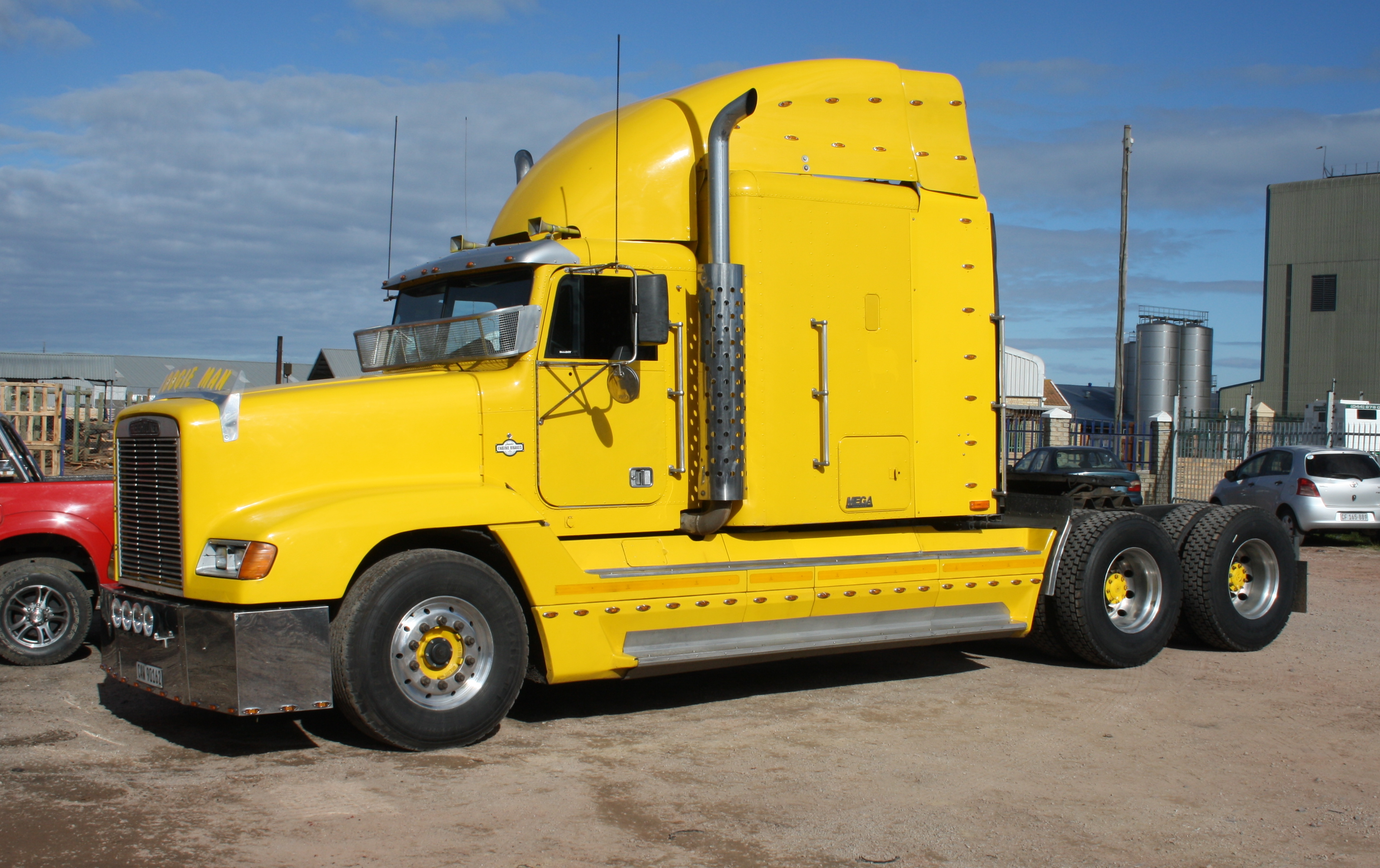 Freightliner FLD 120 "Boogie Man".